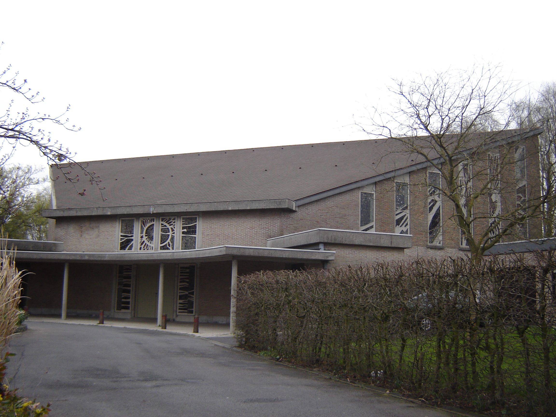 Church of Saint Paul in Kortrijk. Kortrijk, West Flanders, Belgium